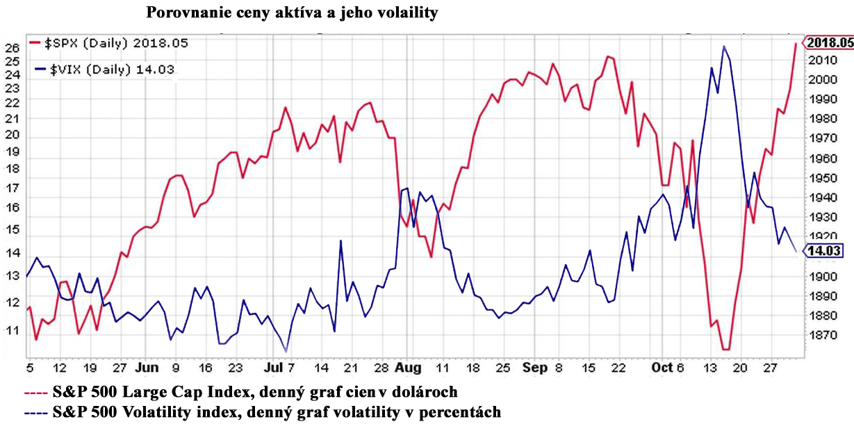 Comparison of S&P 500 and its index of volatility